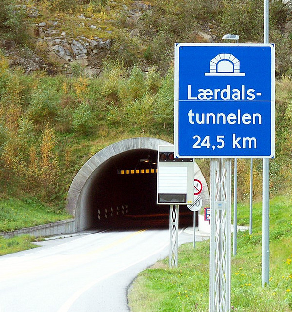 The longest land tunnel in the world - 24.5km.